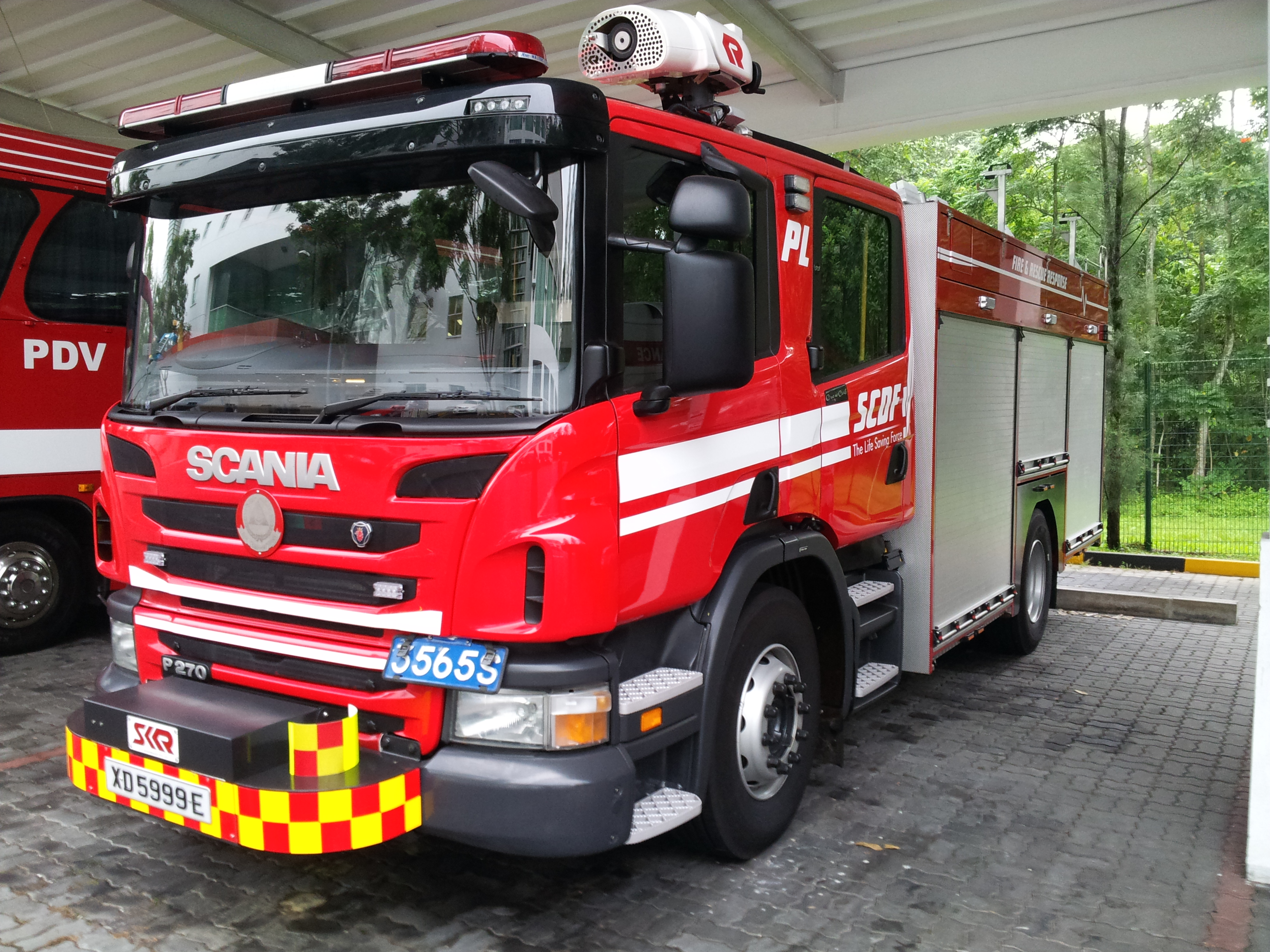 SCDF's new fleet of CAF PL